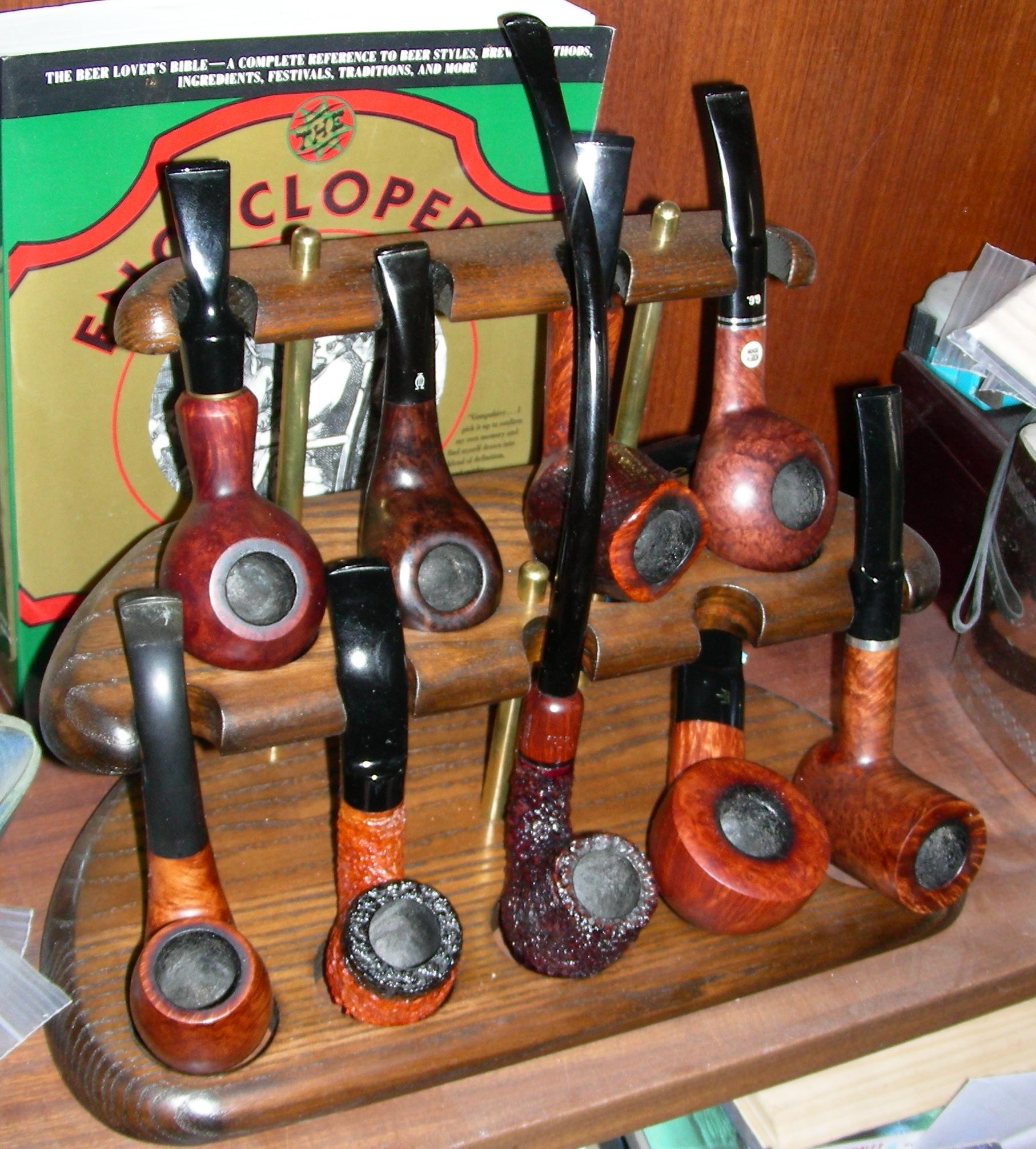 A collection of smoking pipes